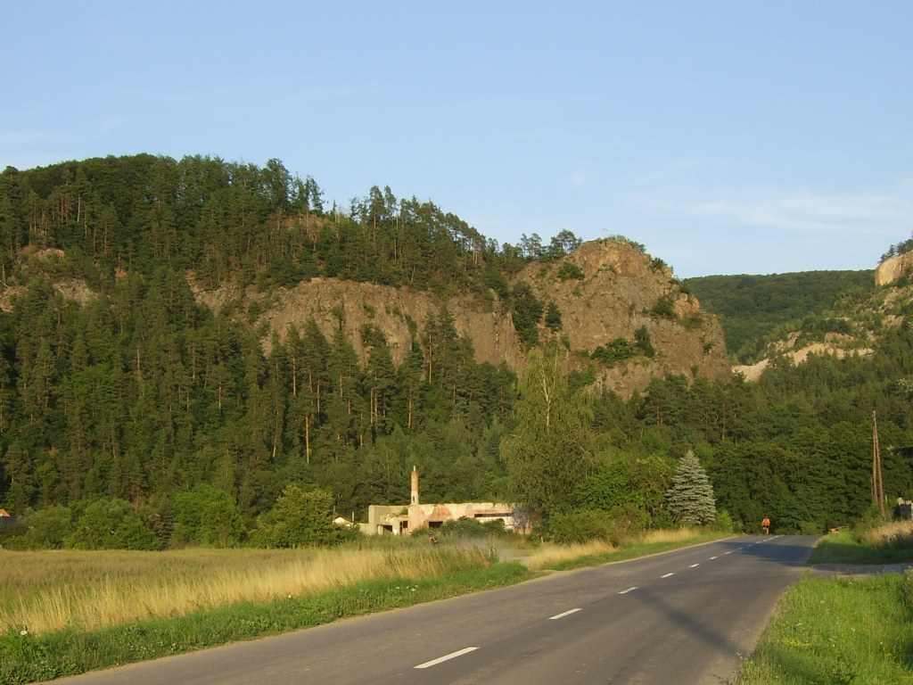 The view on the Nature Reserve Szabóova skala, Slovakia.